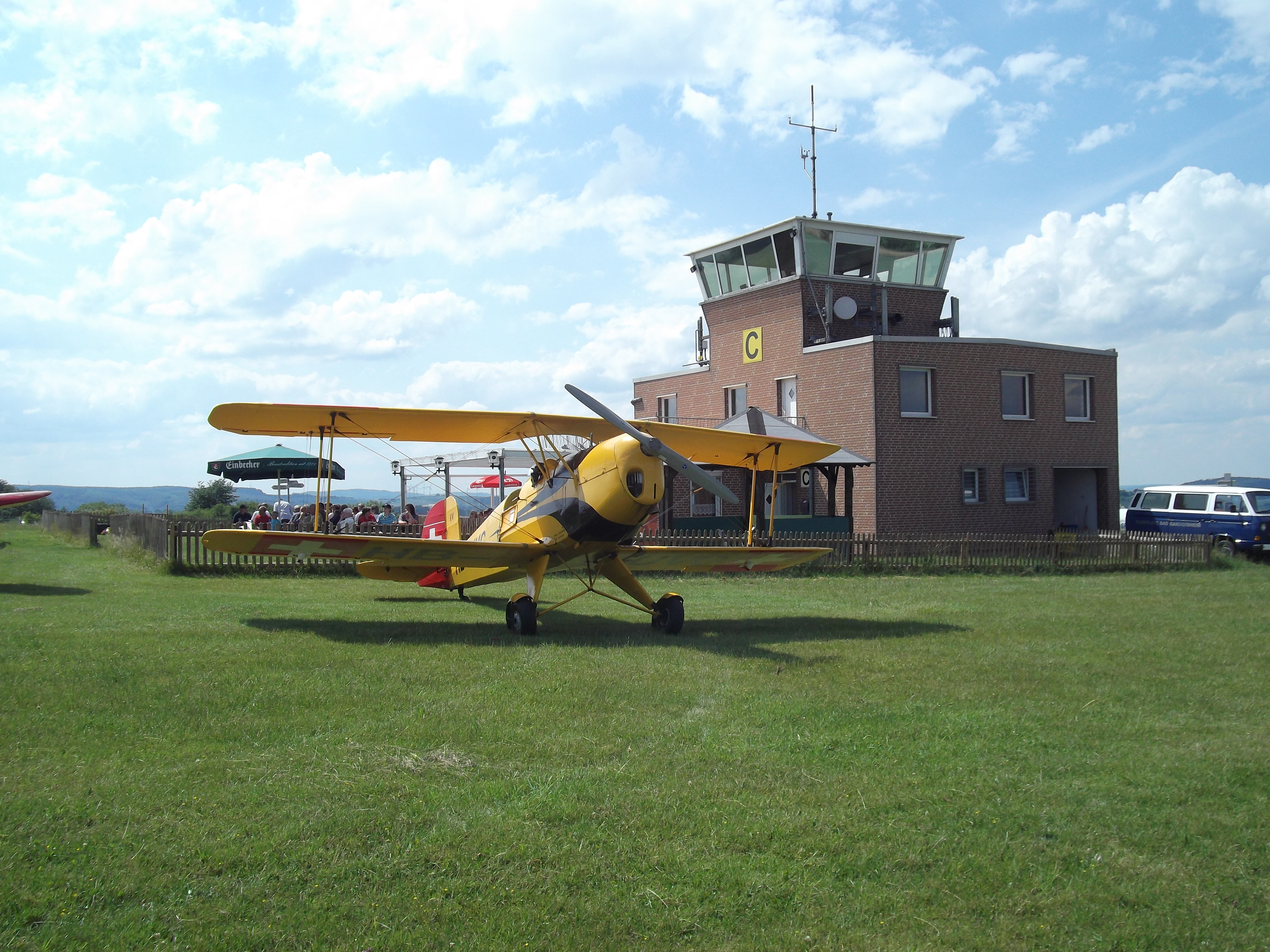 Building of the aerodrome including air-traffic control, training classrooms and restaurant